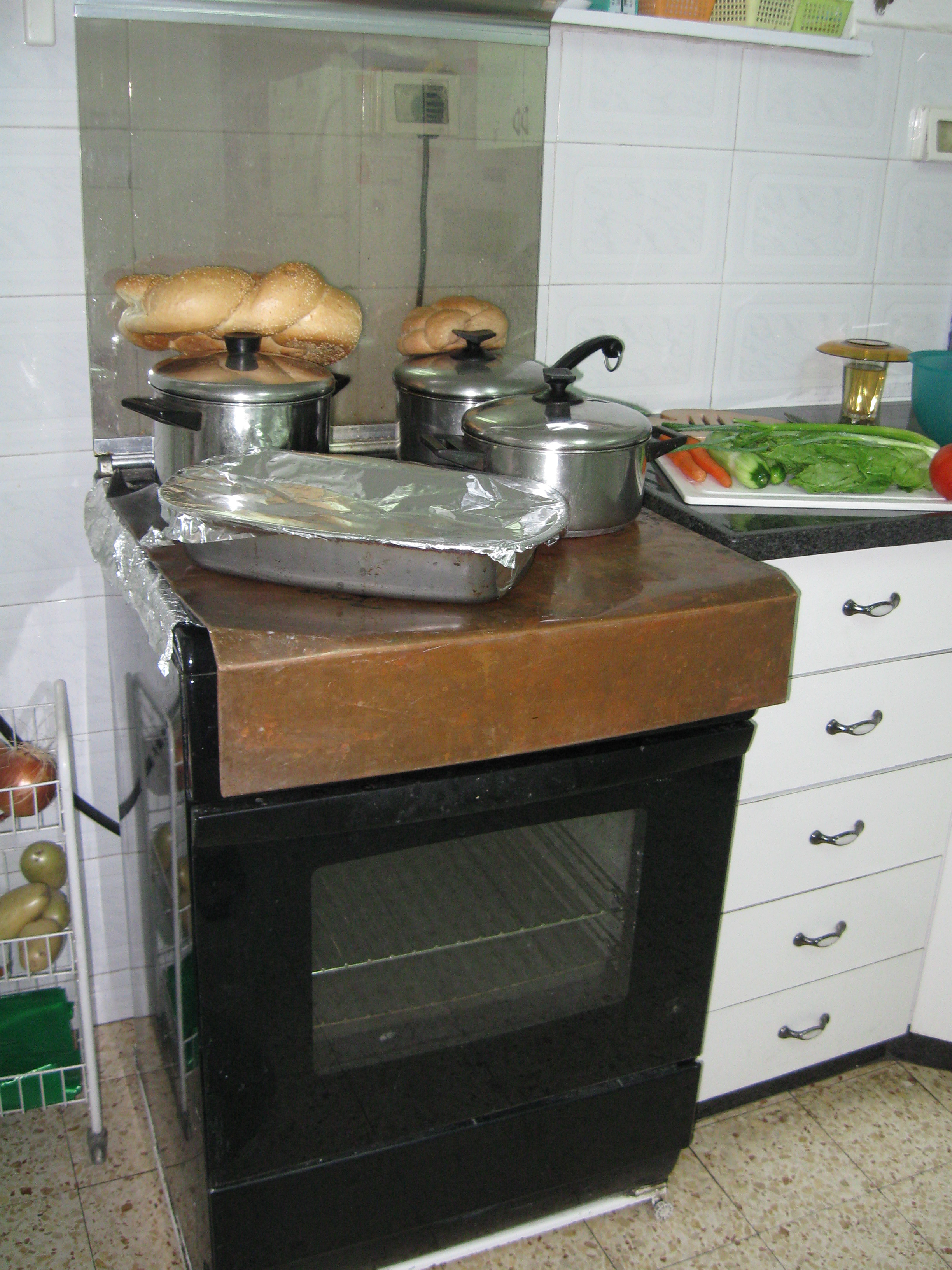 A copper blech covers the lit burners on a stovetop, keeping food warm for the Shabbat meal. Picture taken just before Shabbat began.